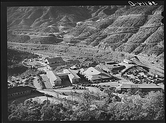 Pacific Constructors camp at Shasta Dam site, November 1940